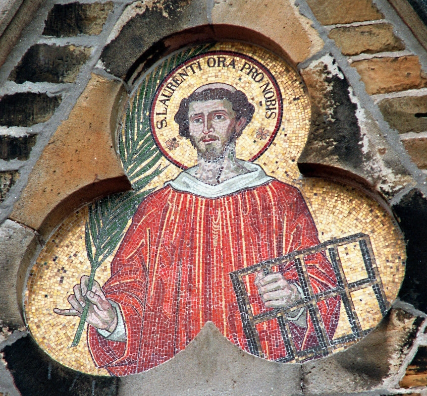 Mosaic portrait of Saint Lawrence at the steeple of the catholic St. Laurentius church in Neuenkirchen, part of the Samtgemeinde Neuenkirchen, Landkreis Osnabrück, Lower Saxony, Germany.